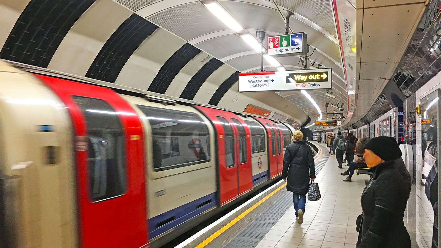 A London Underground 1995 stock Central Line train at Shepherd's Bush Tube Station